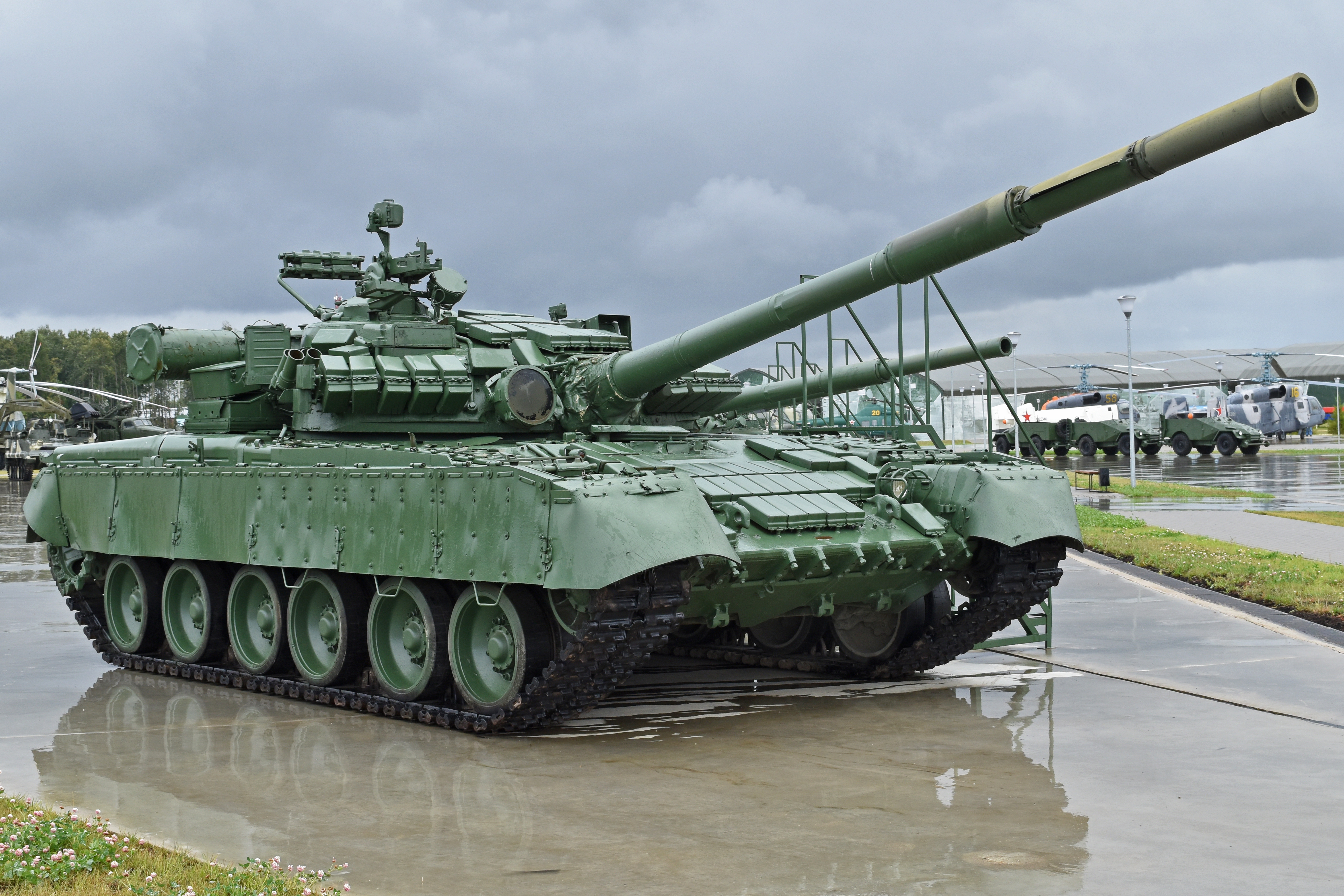 Soviet 3rd Generation Main Battle Tank Built:- 1976 to 1992 Total Production:- 5,404 Main Armament:- 125mm 2A46-2 Smoothbore gun The T-80 was the first Main Battle Tank to feature a multifuel turbine engine as its main propulsion engine. The T-80B had a new turret, laser-rangefinder, fire-control and the 9M112-1 ‘Kobra’ ATGM system. The T-80BV also had ‘Kontact-1’ explosive reactive armour. On display in Area 1 of the Patriot Museum Complex. Park Patriot, Kubinka, Moscow Oblast, Russia. 25th August 2017